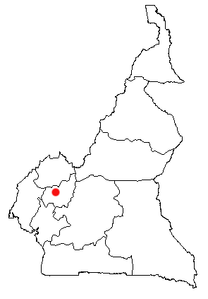 Bafoussam, Cameroon Location Map; created with the GIMP. Made by User:Acntx.